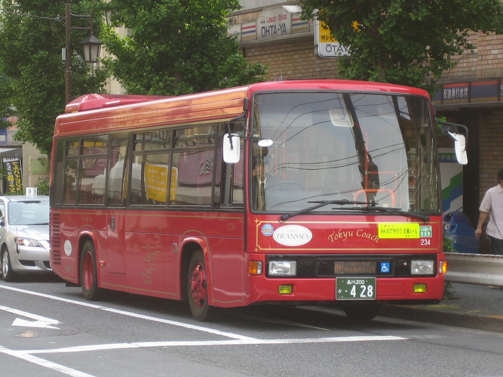 Tokyu Corch